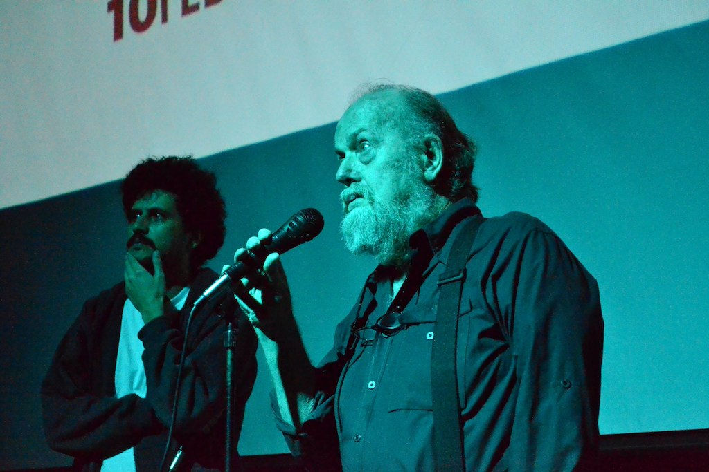 Director Pat O'Neill at a screening of his film Water and power in Veracruz, Mexico, on 2012.